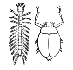 Black and white drawing of larval and adult stages of the whirligig beetle.